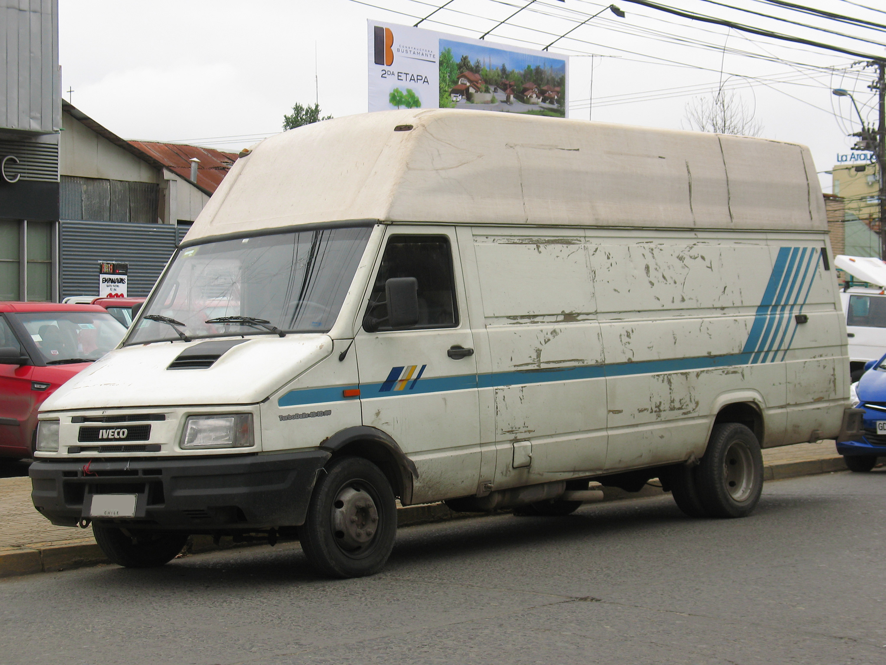 Iveco TurboDaily 49-10 Cargo 1997